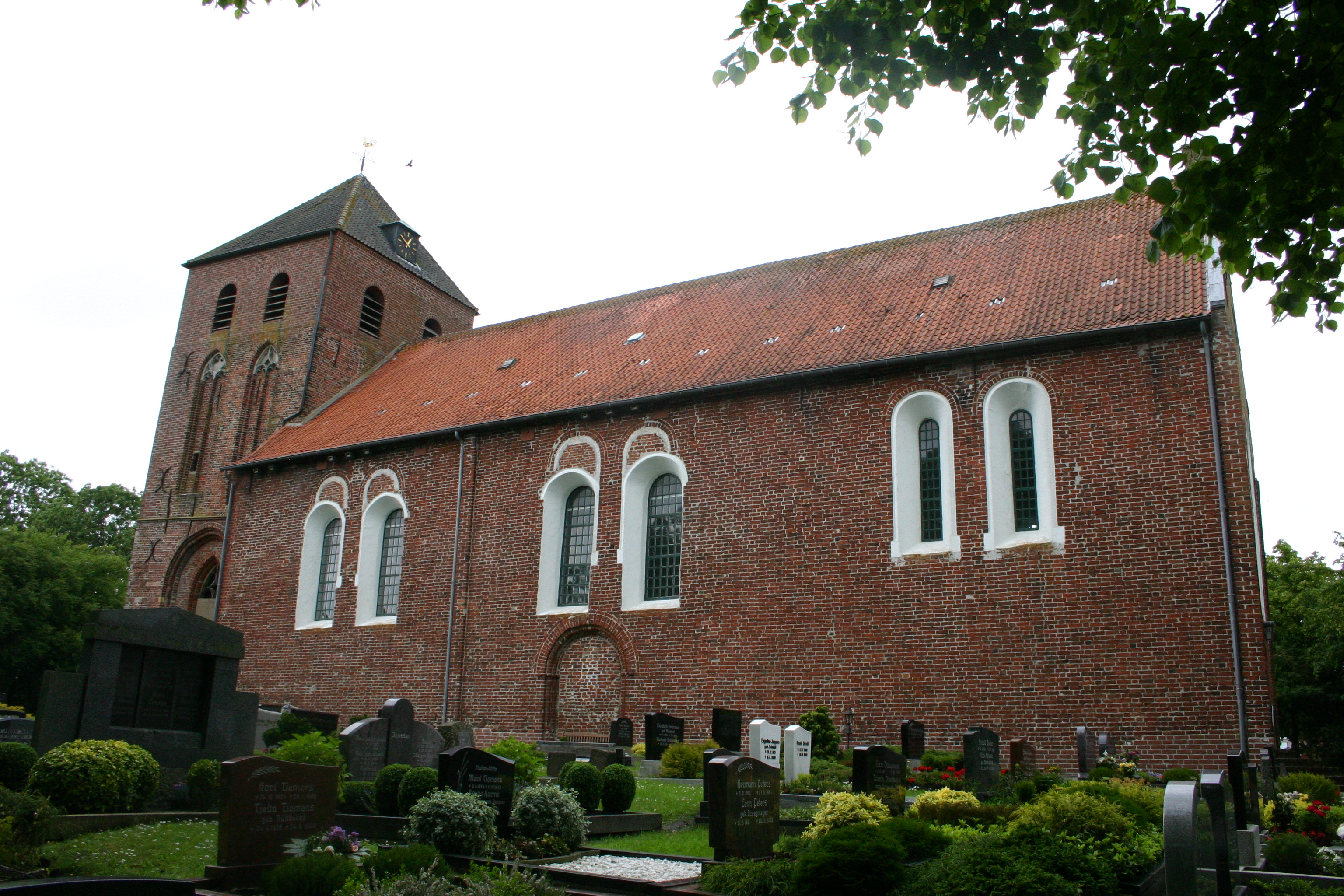 Historic church in Uttum, district of Aurich, East Frisia, Germany